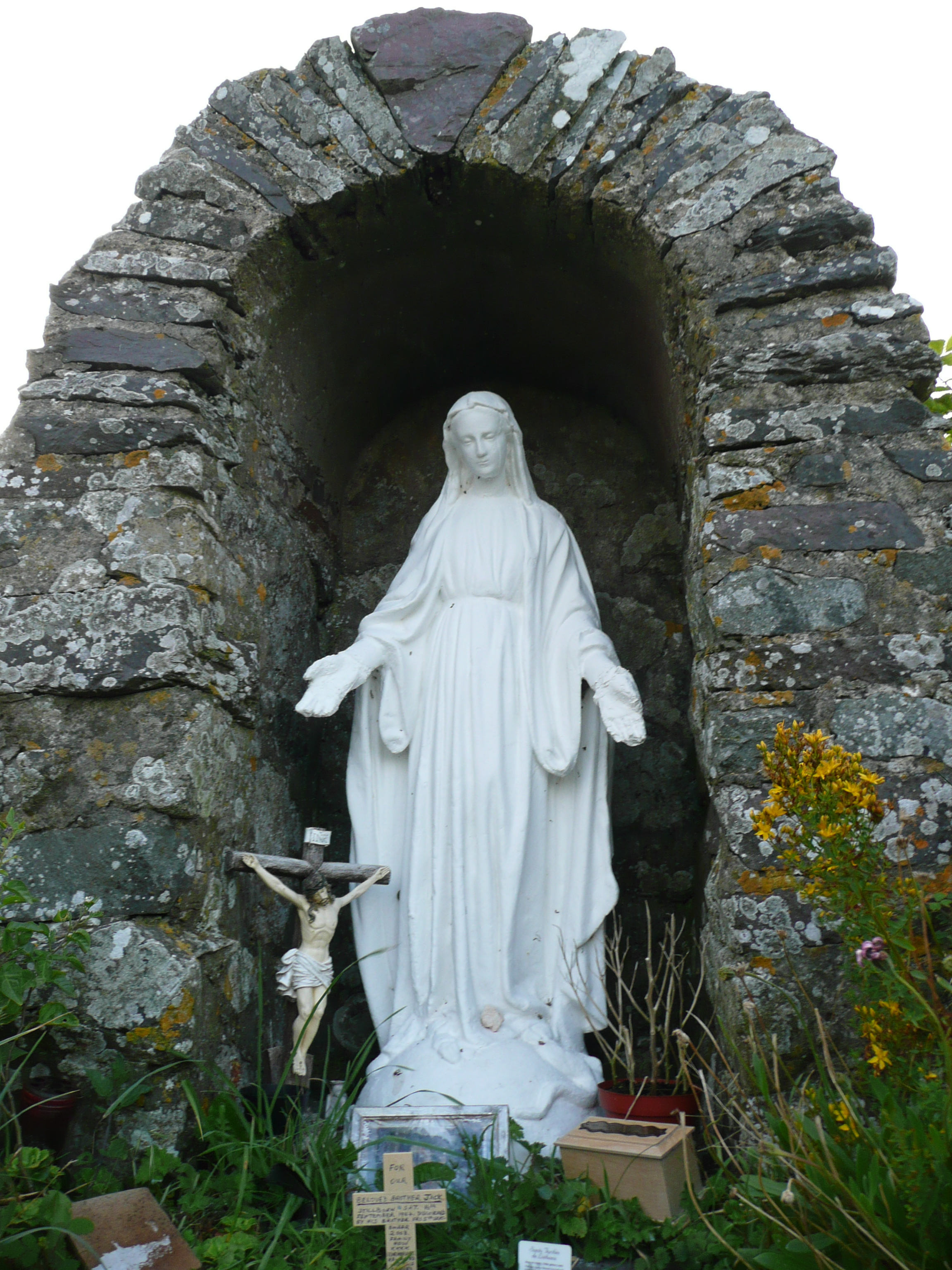 Grotto at St Non's Chapel